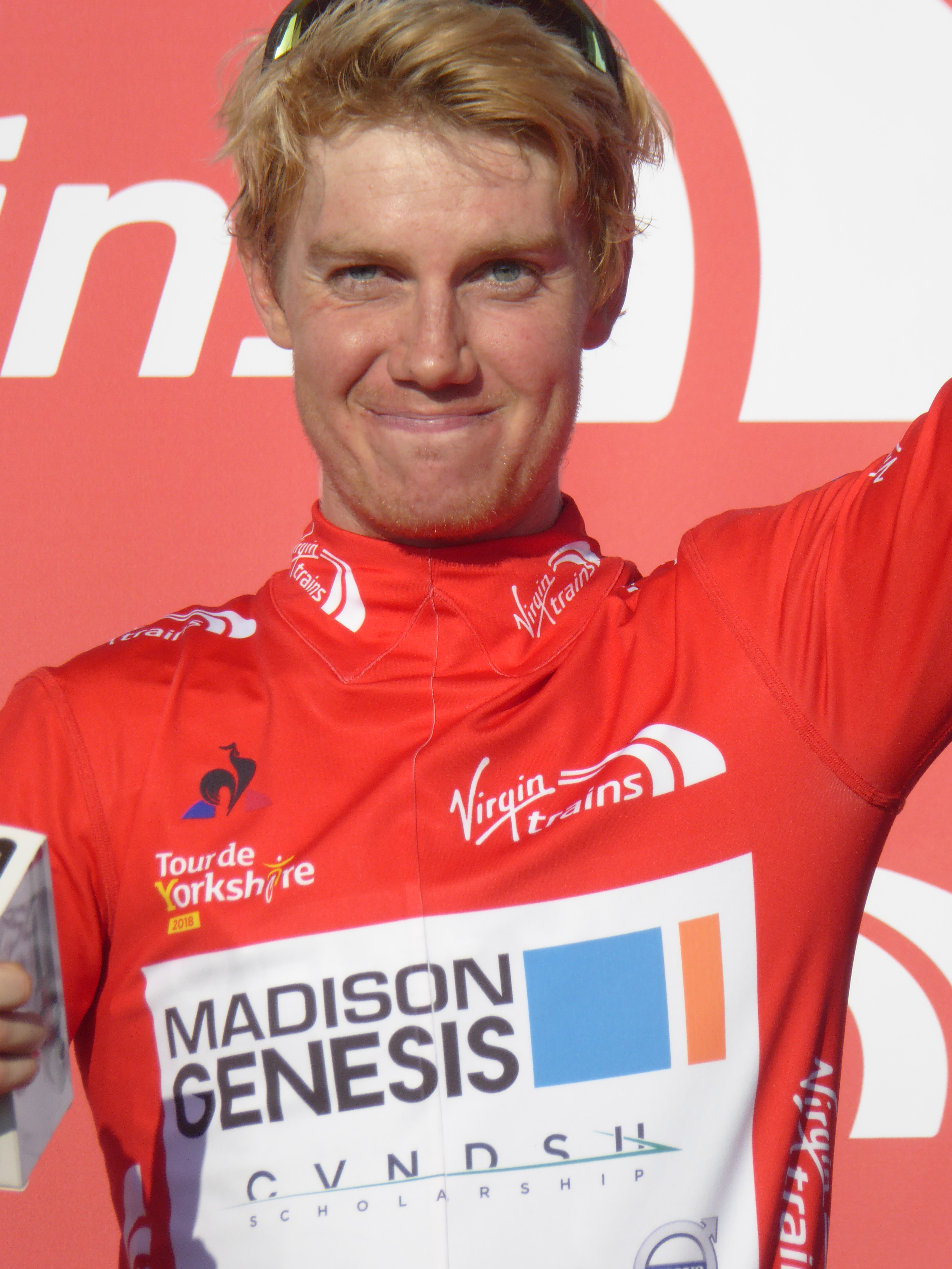 The leader of the mountains classification after Stage 2 of the 2018 Tour de Yorkshire, Mike Cuming of the Madison Genesis team.